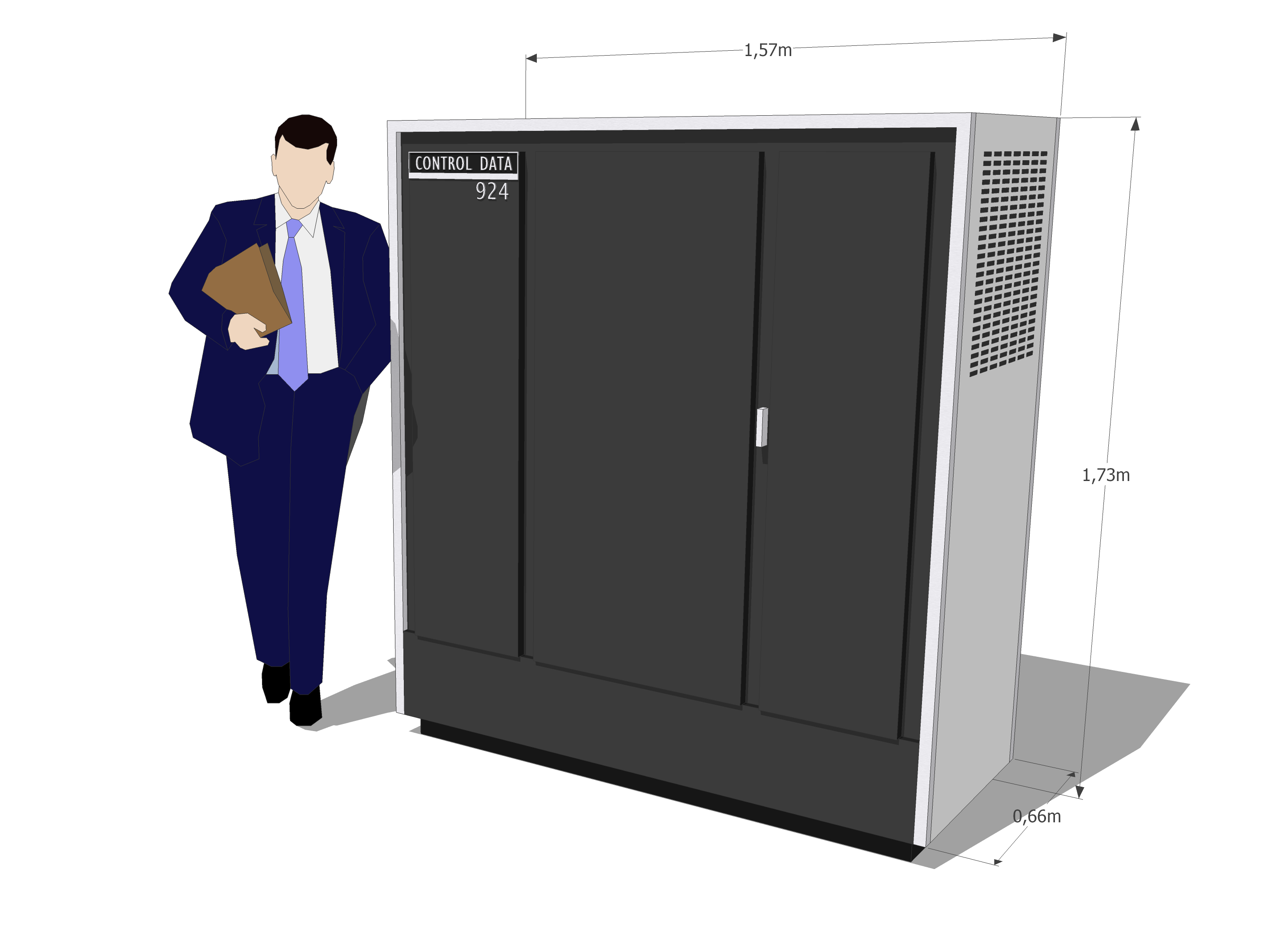 3D rendering with scaling of the supercomputer CDC 924, reduced version of the CDC 1604.